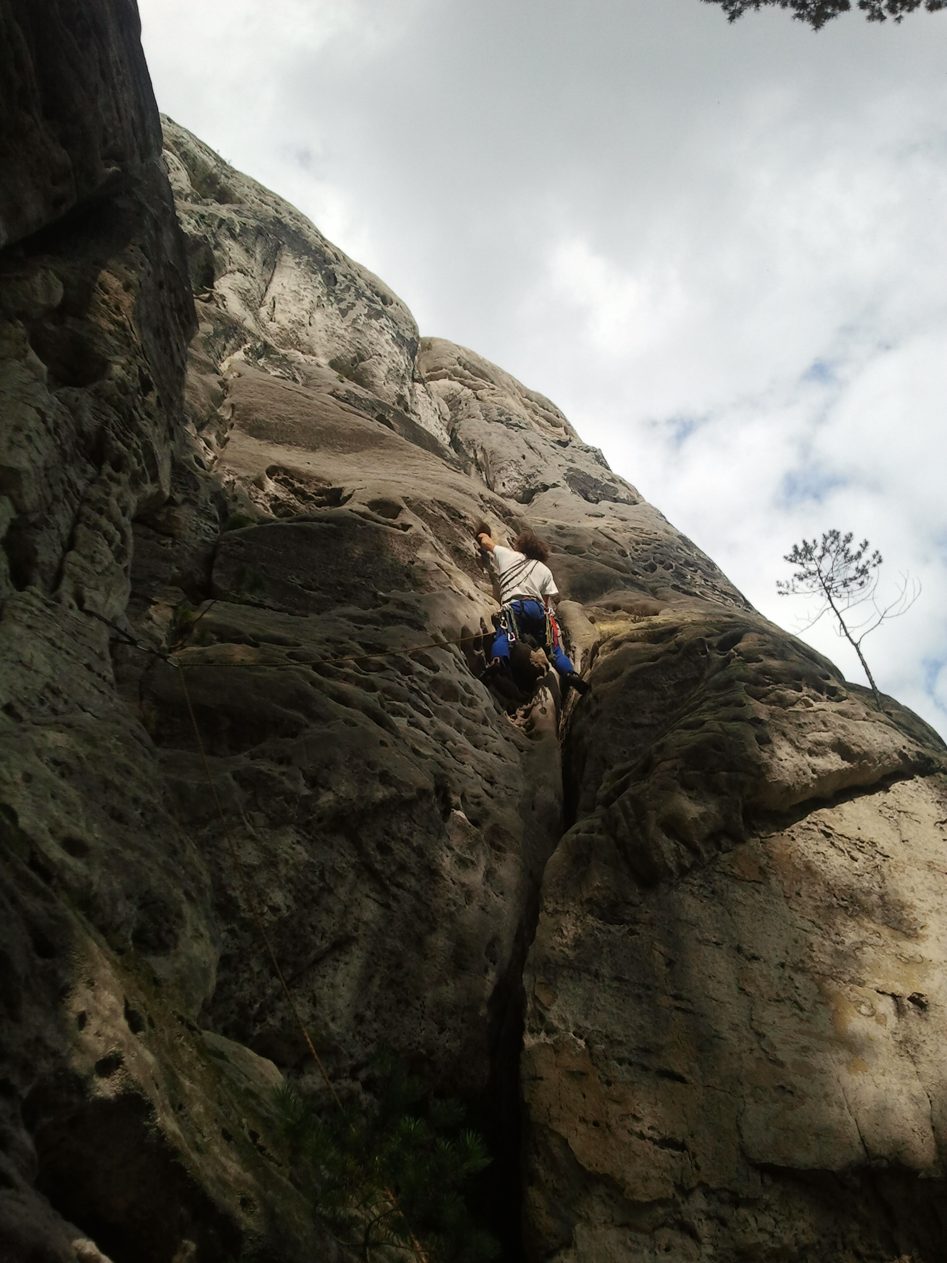 Horolezci na Skautovi